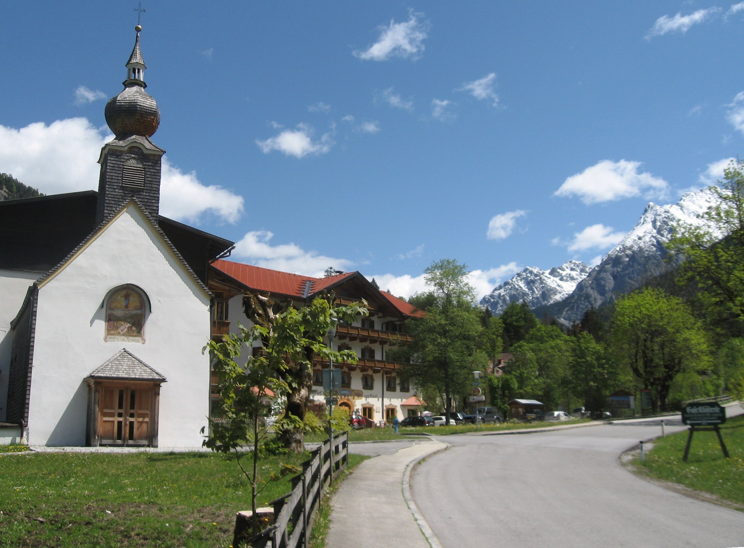 Village Hinterrß / Karwendel - Austria